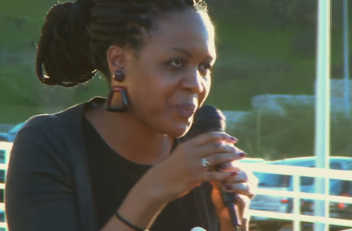 Joacine Katar Moreira makes a speech in front of Seixal City Hall on 25 January 2019, following an episode of police brutality in the Bairro da Jamaica neighbourhood.